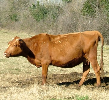 cow